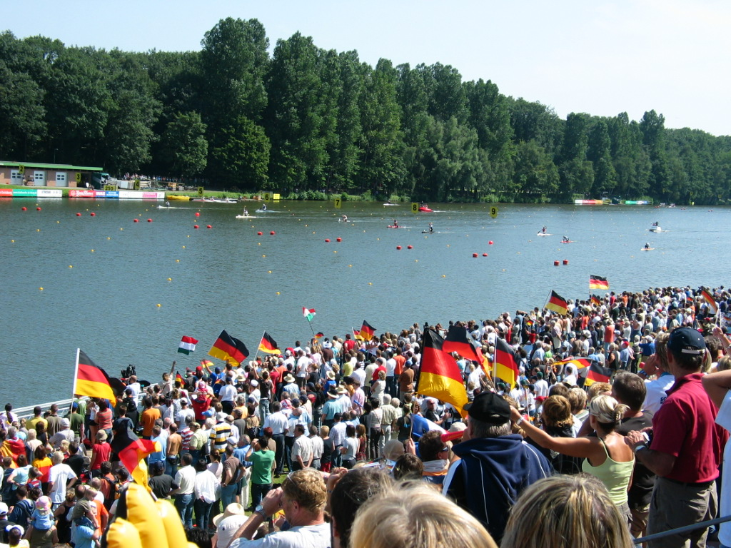 Canoe World Championships 2007 in Duisburg - View from the Main Stand